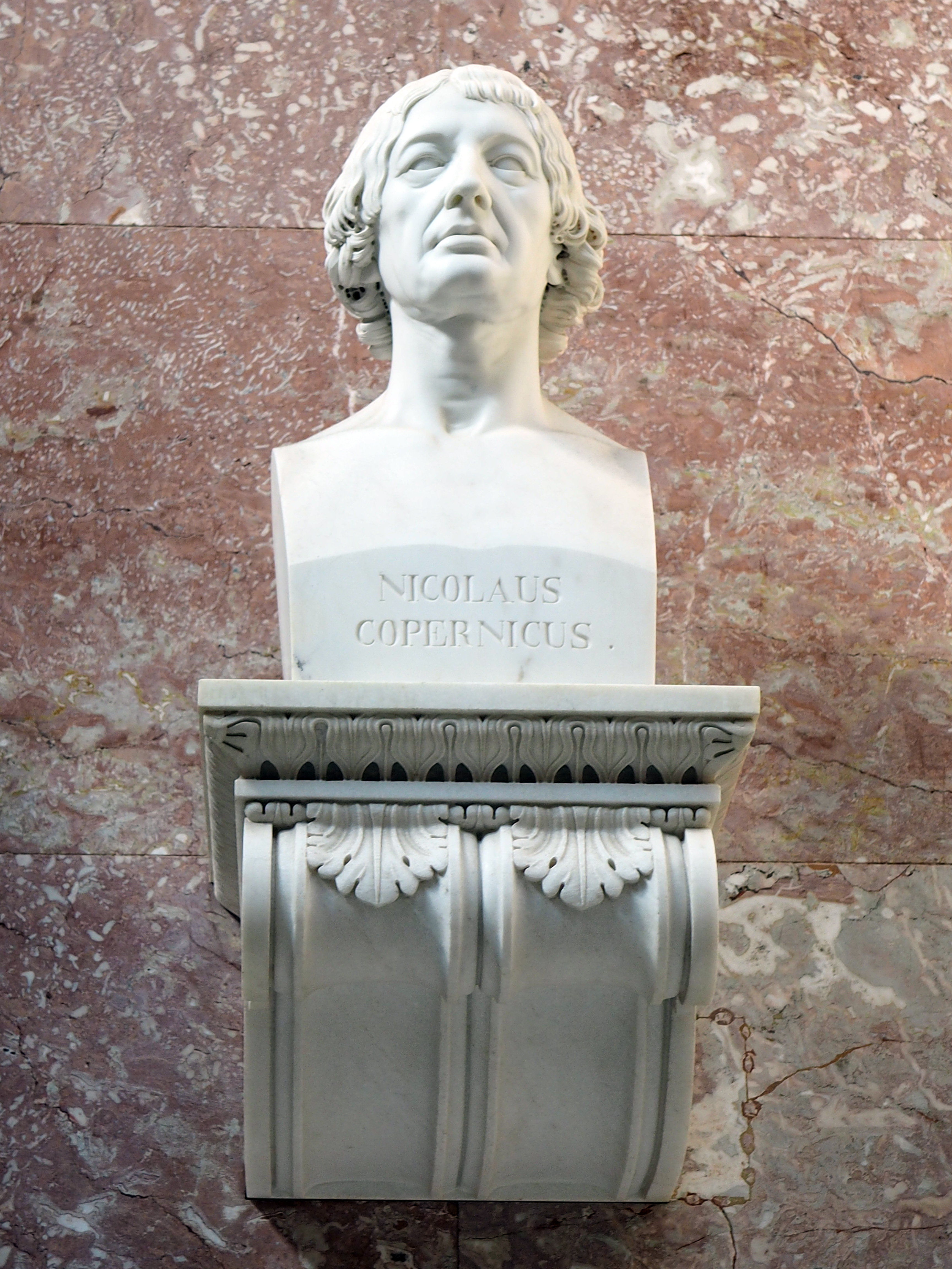 Nicolaus Copernicus bust, created in 1807 by Johann Gottfried Schadow, in the German Walhalla temple near Regensburg.